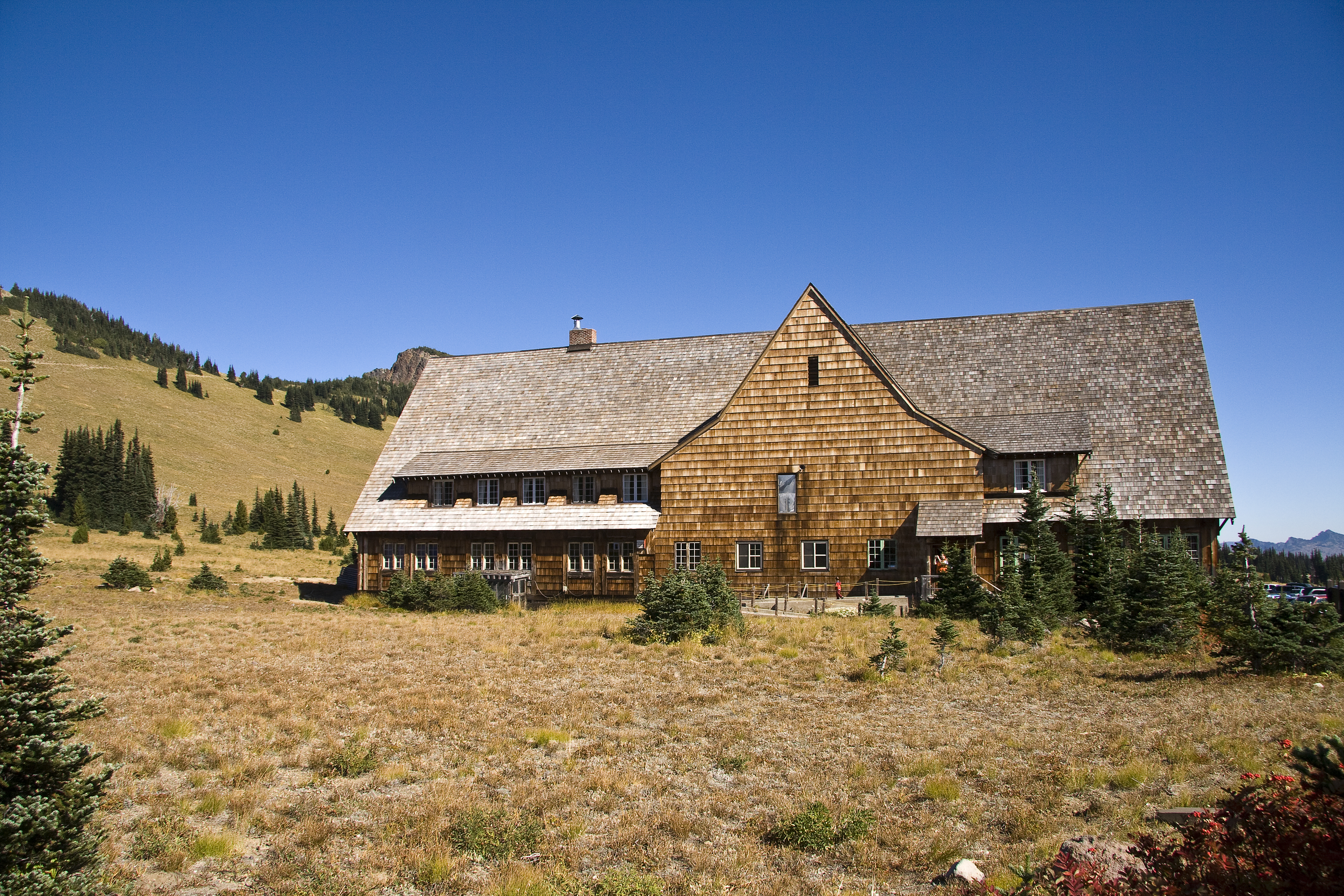 Sunrise Lodge, Mount Rainier National Park, Washington, USA. Part of the Sunrise Historic District, which is listed on the National Register of Historic Places.